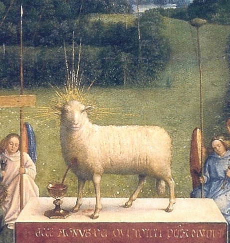 detail of the adoration of the lamb